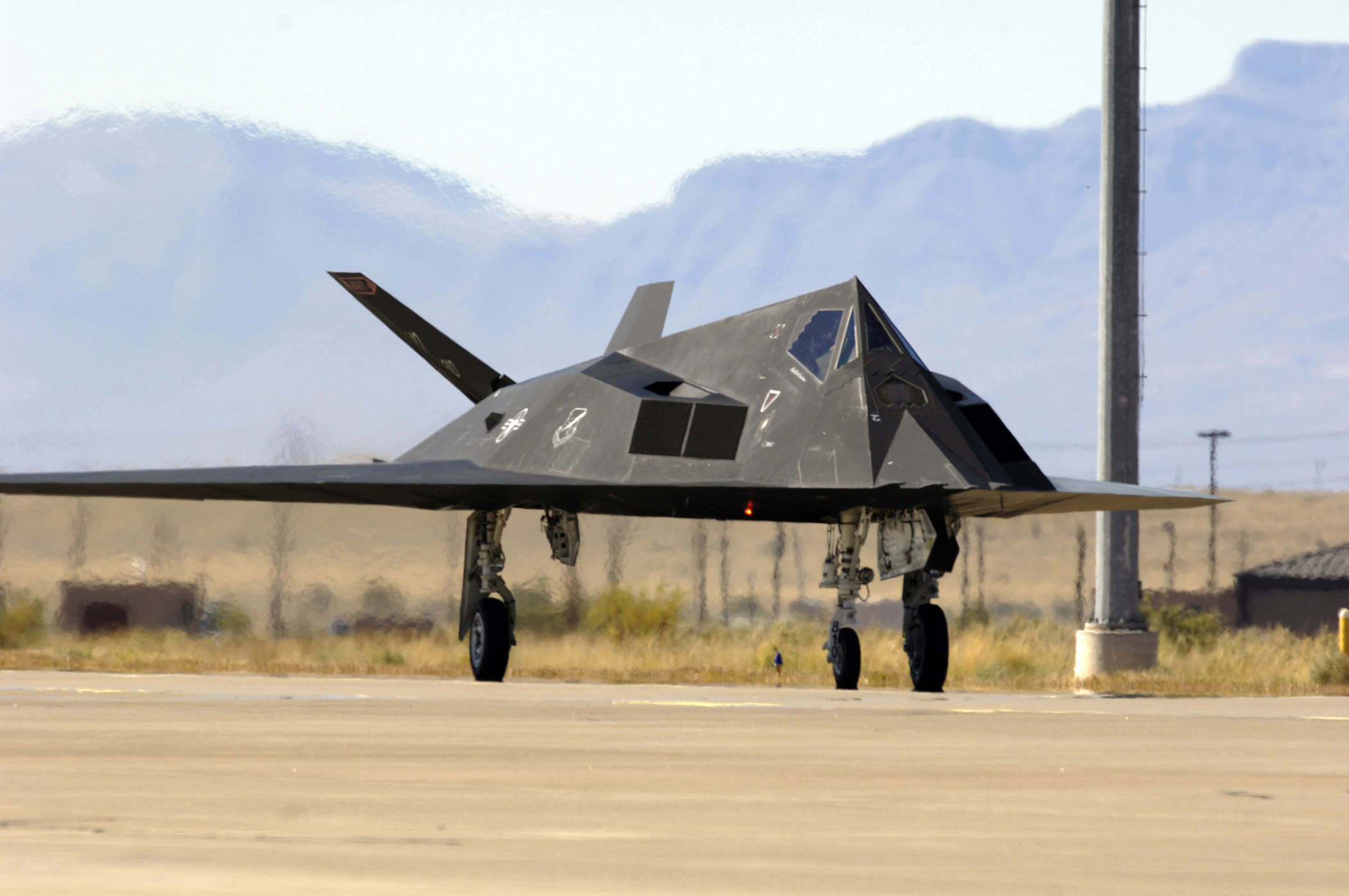 An F-117A Nighthawk aircraft assigned to the 49th Fighter Wing taxies after a legacy flight for the Holloman Air and Space Expo on Holloman Air Force Base, N.M., Oct. 26, 2007. The Holloman Air and Space Expo is a showcase of Air Force capabilities, the 49th Fighter Wing mission and the X Prize Foundation.